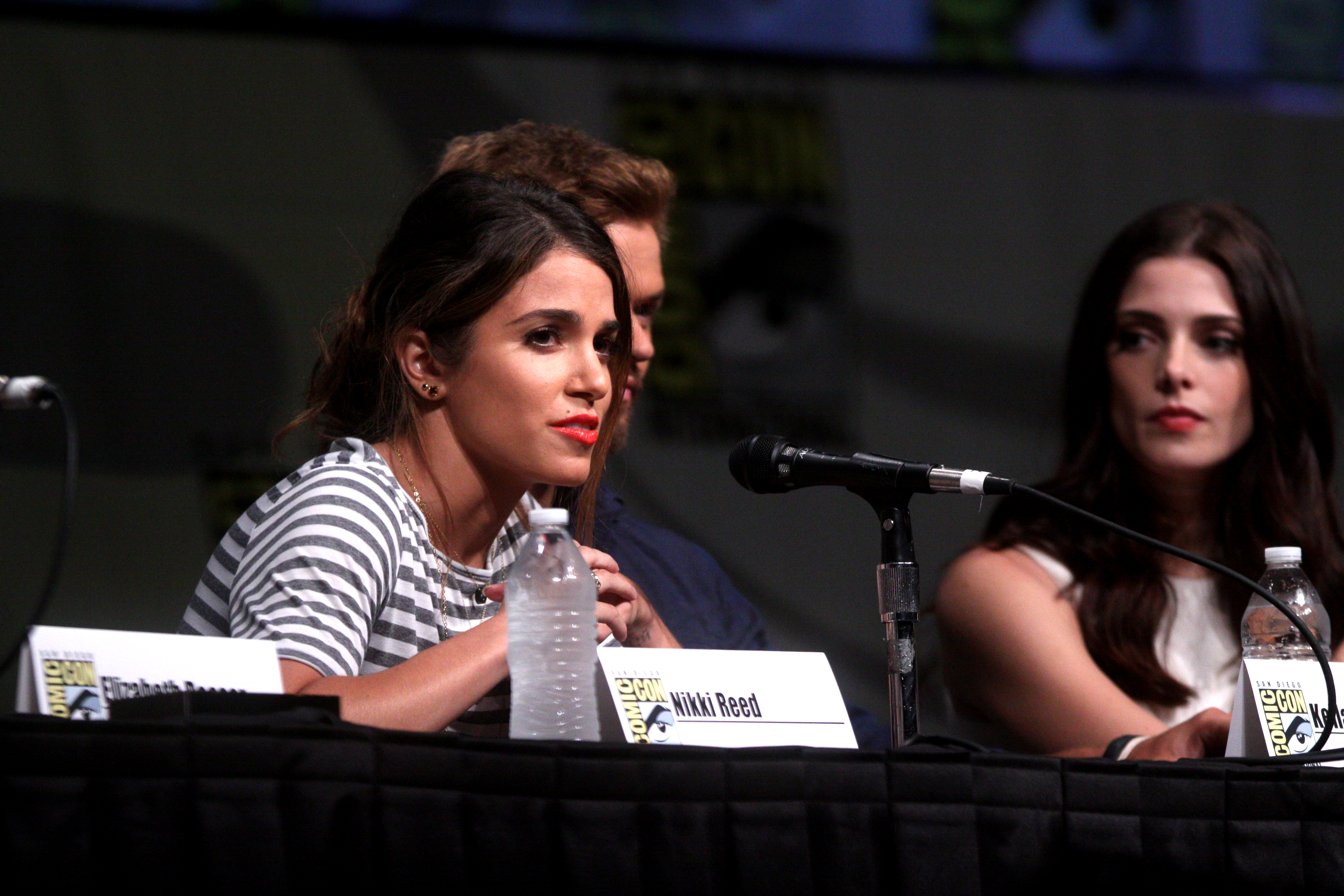 Nikki Reed, Kellan Lutz & Ashley Greene speaking at the 2012 San Diego Comic-Con International in San Diego, California.